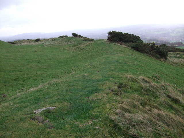 Moel y Gaer hill fort Part of the circular bank and ditch, some 180 metres in diameter. Believed to have been constructed between 2000 and 2500 years ago, it provided an excellent defendable site.